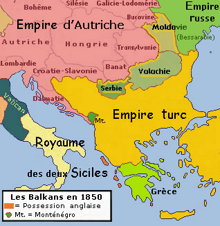 Historic map of Balkan peninsula, 1850